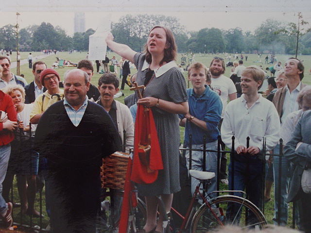 Speaker's Corner, April 1987. The speaker has invented a religion. The man on left hijacks other speakers' presentations.